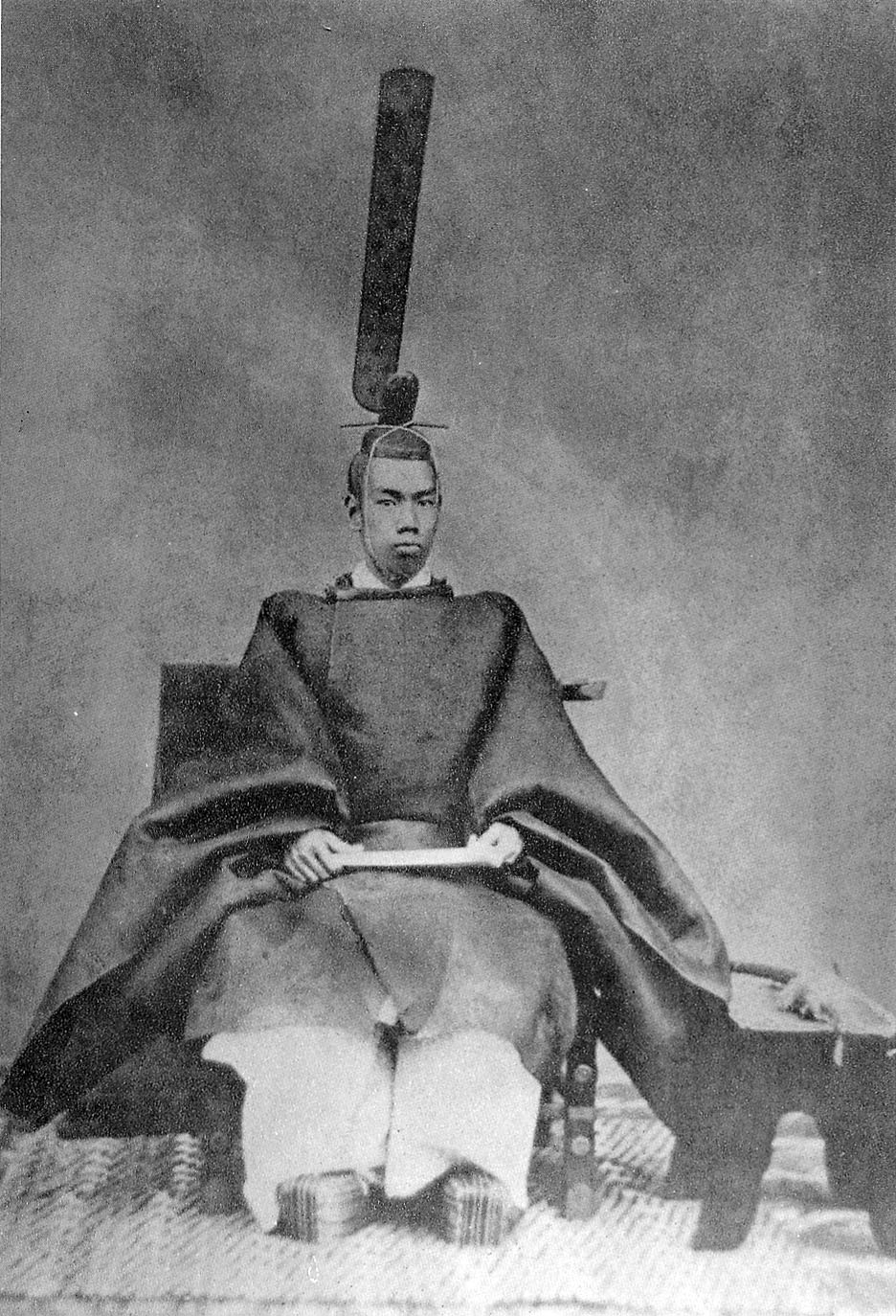 The Meiji Emperor 明治5年. Albumen silver print. Uchida Kuichi was the only photographer granted a sitting by the Emperor Meiji and in 1872 Uchida photographed the Emperor and Empress Haruko in full court dress and everyday robes. In 1873, Uchida again photographed the Emperor, who this time wore military dress, and a photograph from this sitting became the official imperial portrait (Ishii and Iizawa). Copies of the official portrait were distributed among foreign heads of state and Japanese regional governmental offices, but their private sale was prohibited. Nevertheless, many copies of the photograph were made and circulated on the market. (Kinoshita). Published in the Japanese book, Meiji Tenno gyoden (Tokyo: Kaneo Bun'endo, 1912)